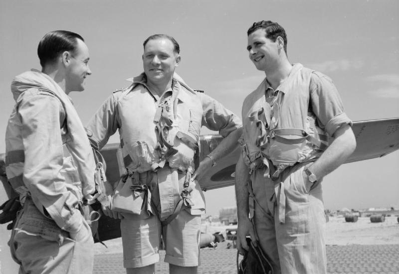 Royal Air Force- Italy, the Balkans and South-east Europe, 1944-1945. Colonel L A Wilmot SAAF, Commanding Officer of No. 239 Wing RAF (centre), standing with two of his pilots at Cutella, south of Vasto, Italy, the day after leading the Wing on a highly successful strike to the Pescara River dam, which they destroyed with 500-lb bombs, and from which all aircraft returned safely. Standing with Colonel Wilmot are the pilots whose bombs first breached the dam walls; Flight Lieutenant K Richards of No. 3 Squadron RAAF (left), and Flight Sergeant A Duguid of No. 260 Squadron RAF (right).